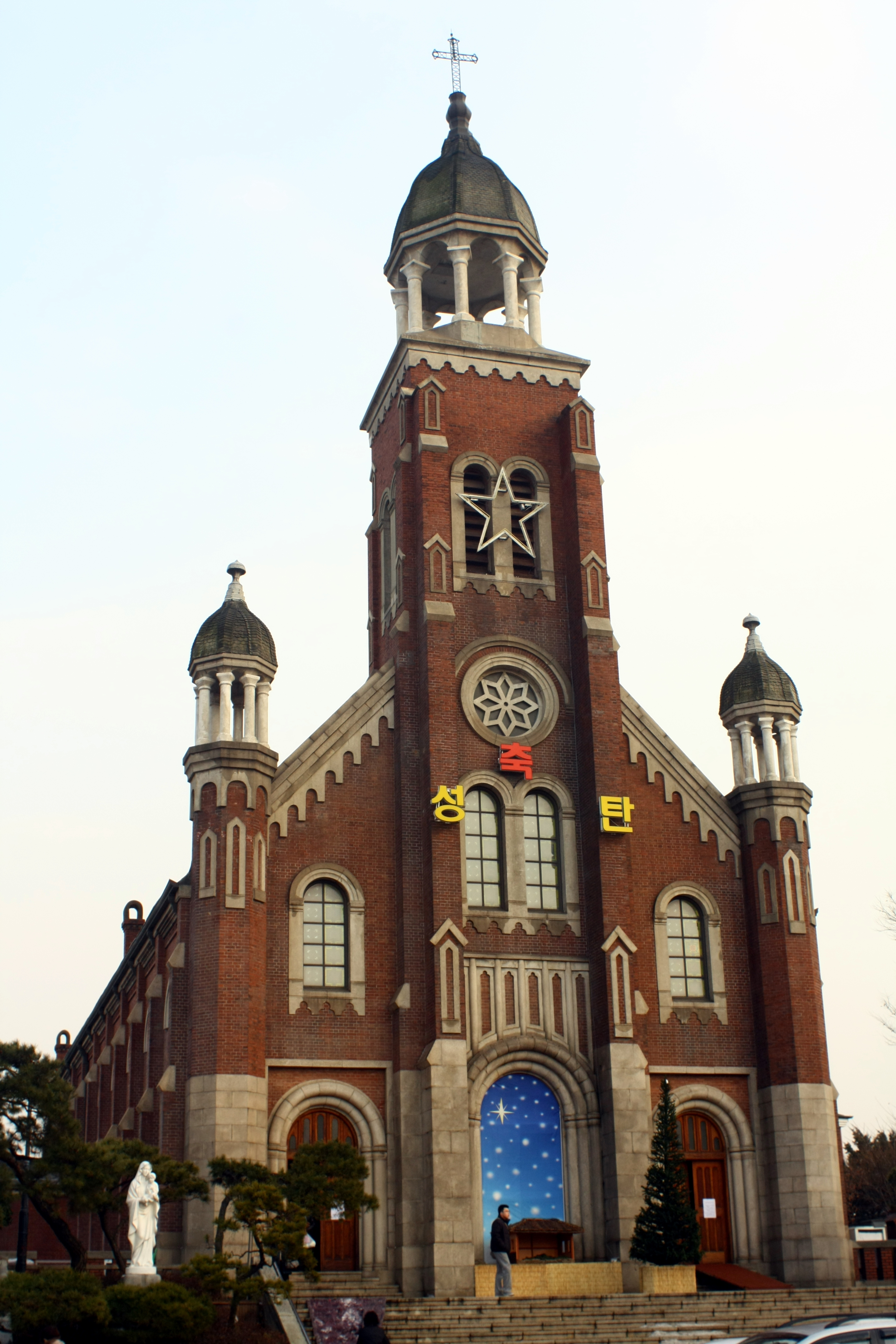 Dapdong cathedral